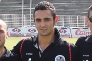 Picture of Aaron Xuereb.